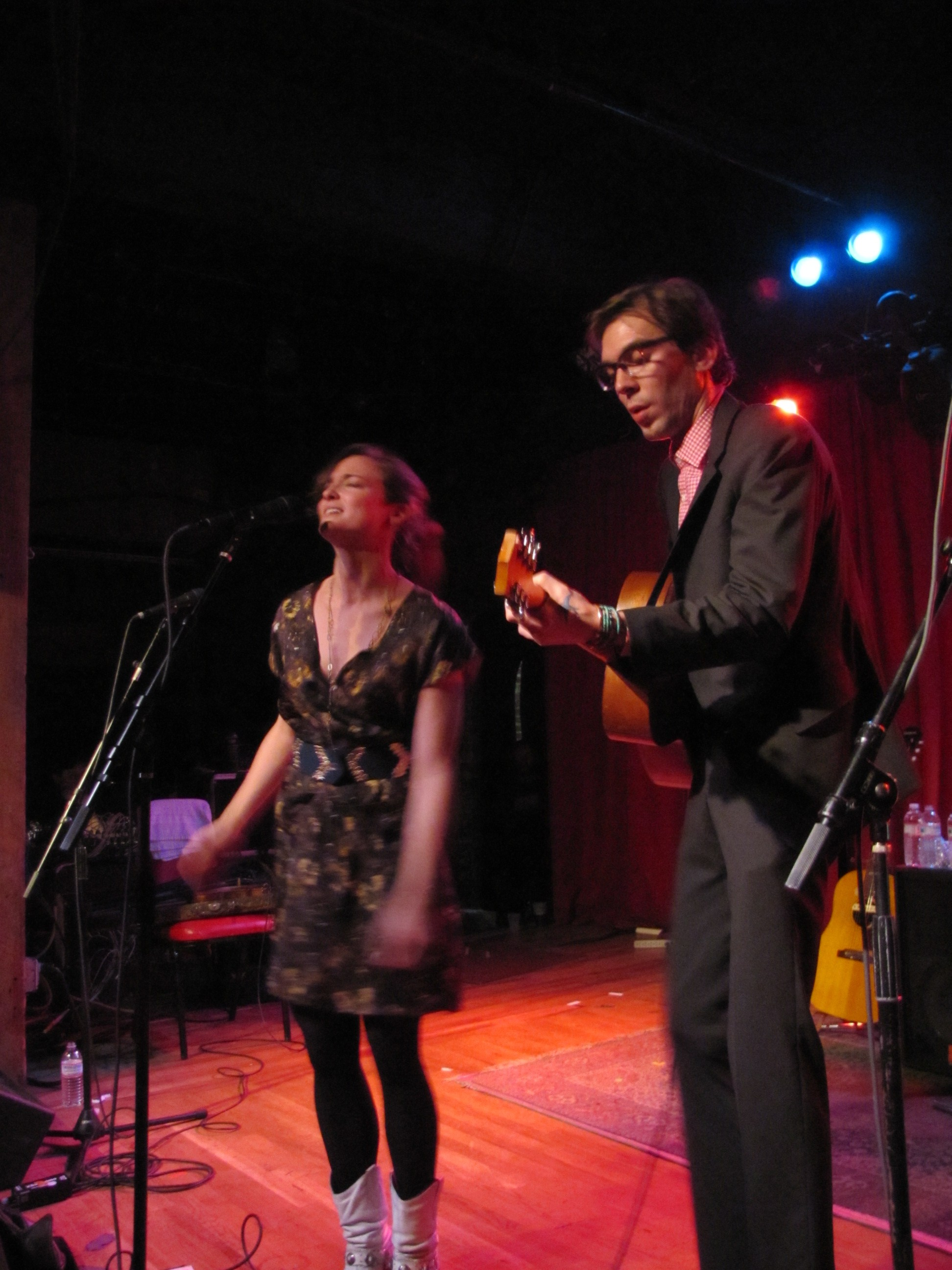 Justin Townes Earle & dawn Landes performing on the stage in Nashville, Tennessee on 2010-01-27.